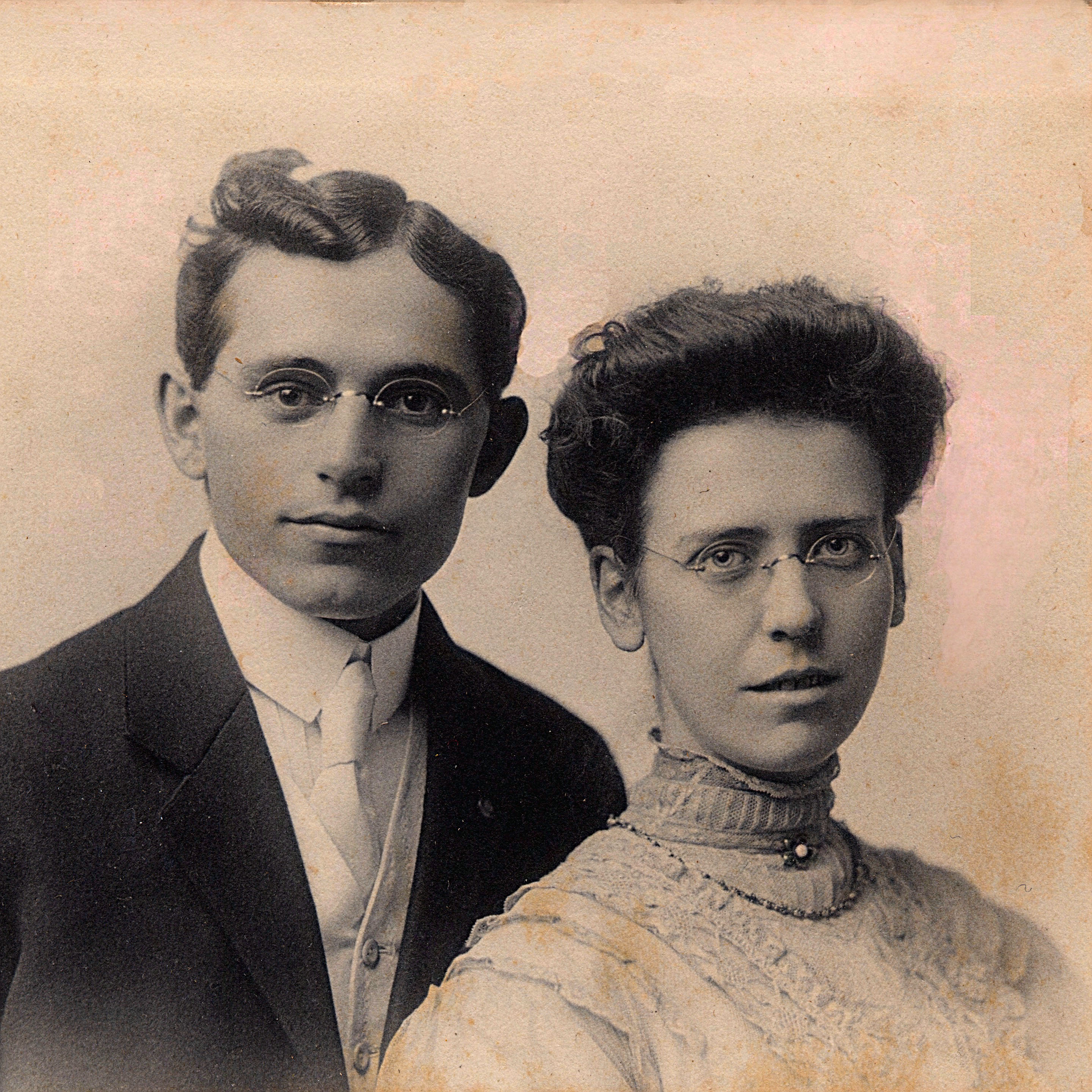 Photo taken at the time of the couple's wedding.